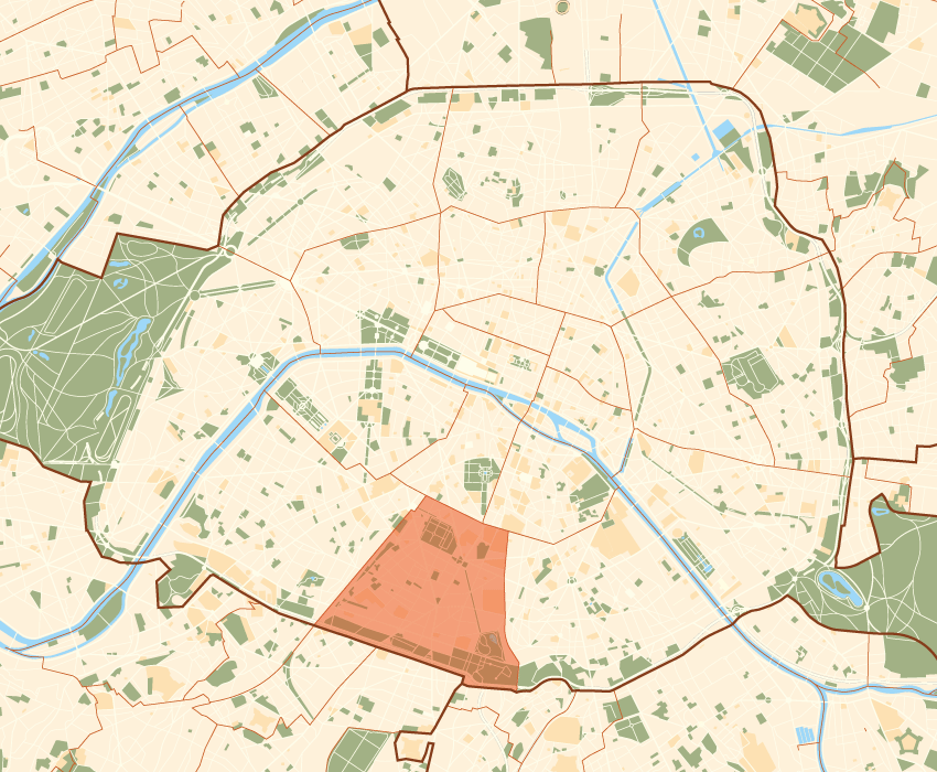 Plan by ThePromenader (own work)